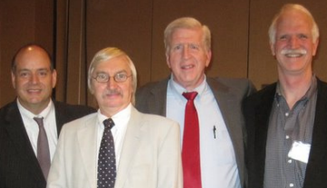 Dr. A. W. Jones at Atlanta Seminat for Criminal Defense Attorneys, 2011